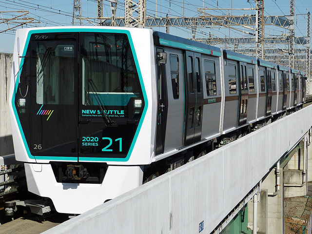 Saitama New Urban Transit 2020 series EMU set 21 approaching Kamonomiya Station